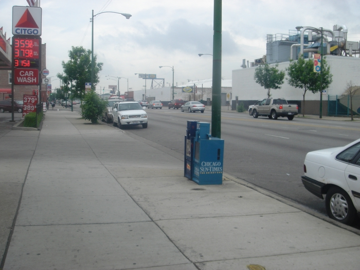 Western Ave in Chicago